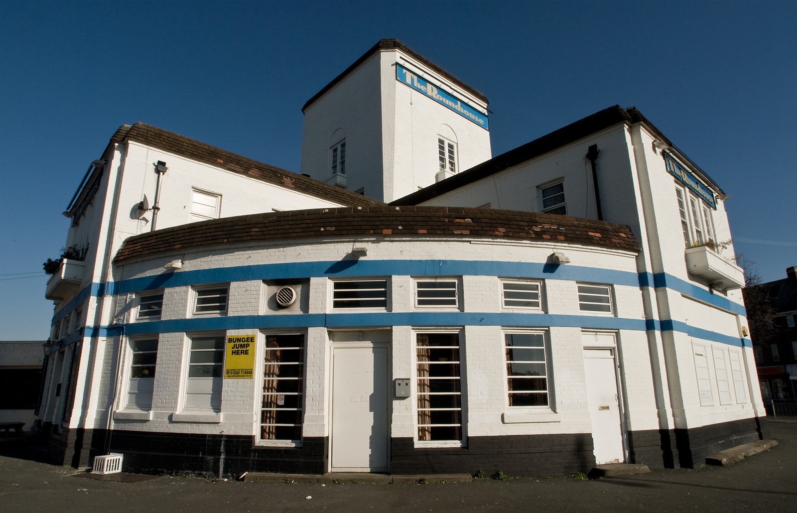 Halfway between Becontree and Upney. Part of the Walking the District Line set.